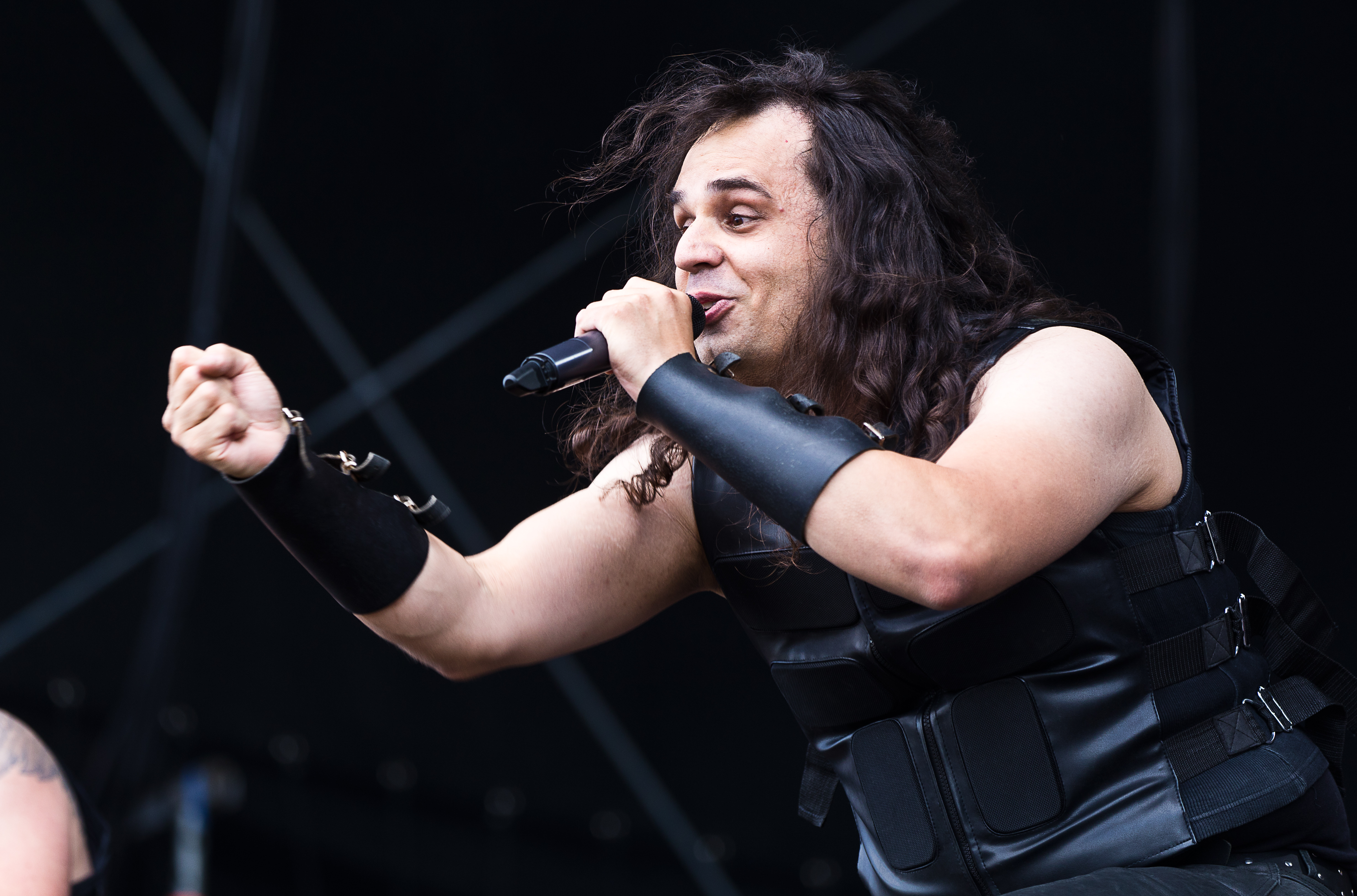 The German heavy metal band Majesty at the Rockharz Open Air 2015 in Ballenstedt/Germany.